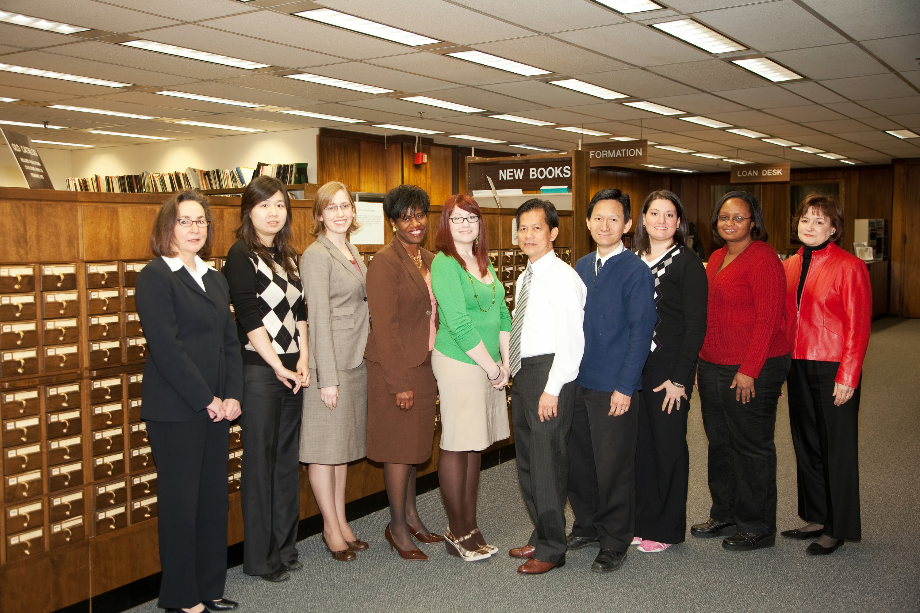 Wirtz Labor Library StaffRecipients of the John Sessions Memorial AwardPresented by the Reference and User Service Association of the American Library Association2009